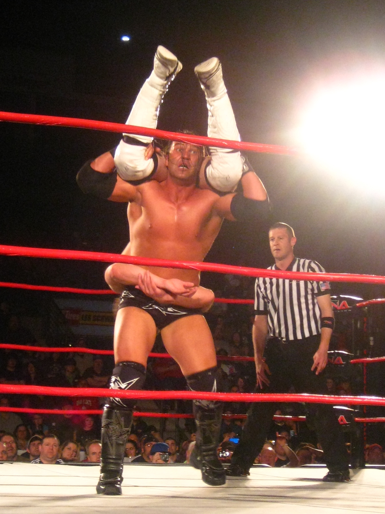 A TNA Live! Even at the ShoWare Center in Kent, WA. No PRO cameras were allowed so I had to put my Canon PowerShot SD1100 IS to work!